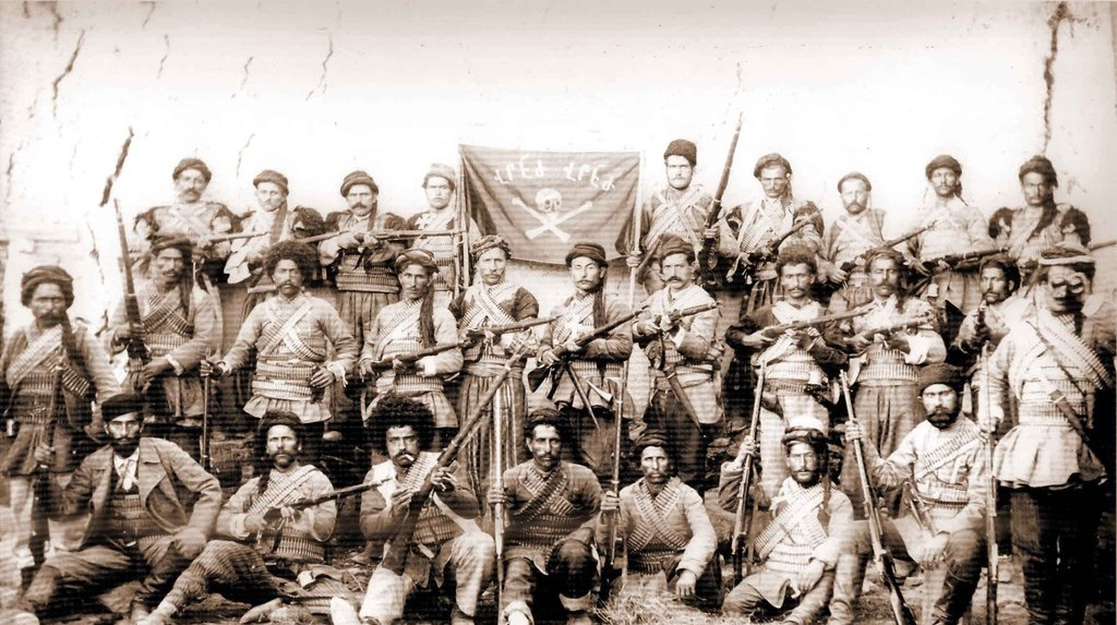 Armenian military forces in 1915